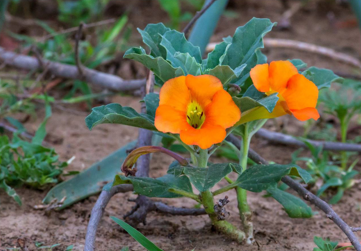 Pterodiscus elliottii Baker ex Stapf - Kruger National Park